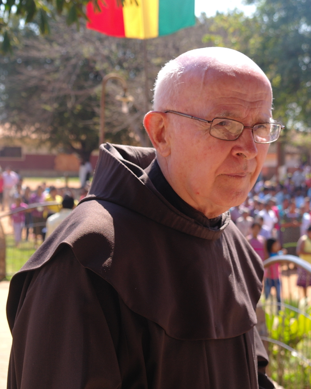 Pater Walter Neuwirth (OFM)